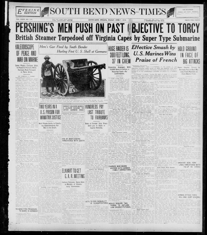 This French gun was the first to be fired by the Americans in the war. The writing on the shield shows it was fired October, 1917, when the first Americans went into the trenches for training.